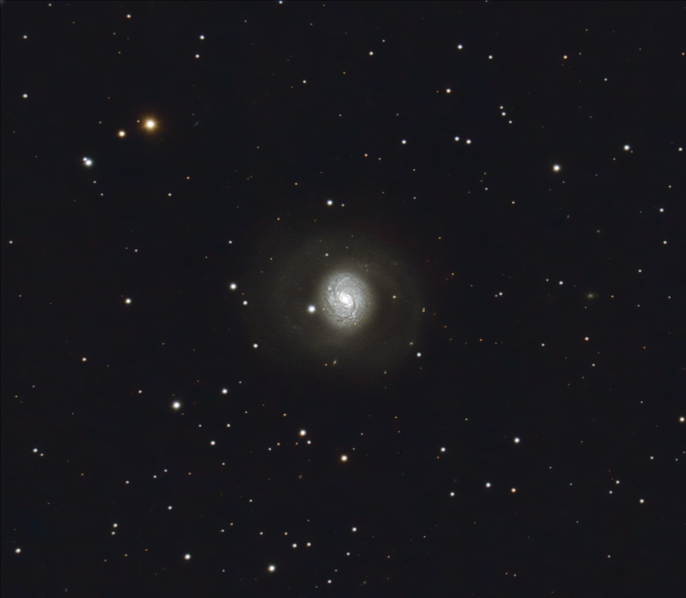 Messier 77 in Cetus